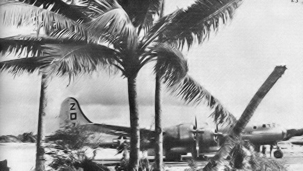 500th Bombardment Group B-29 on a hardstand, Saipan, 1945